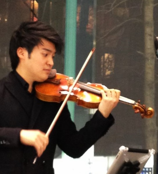 Violinist Ray Chen performing at the Apple Store in NYC on 2/6/12.